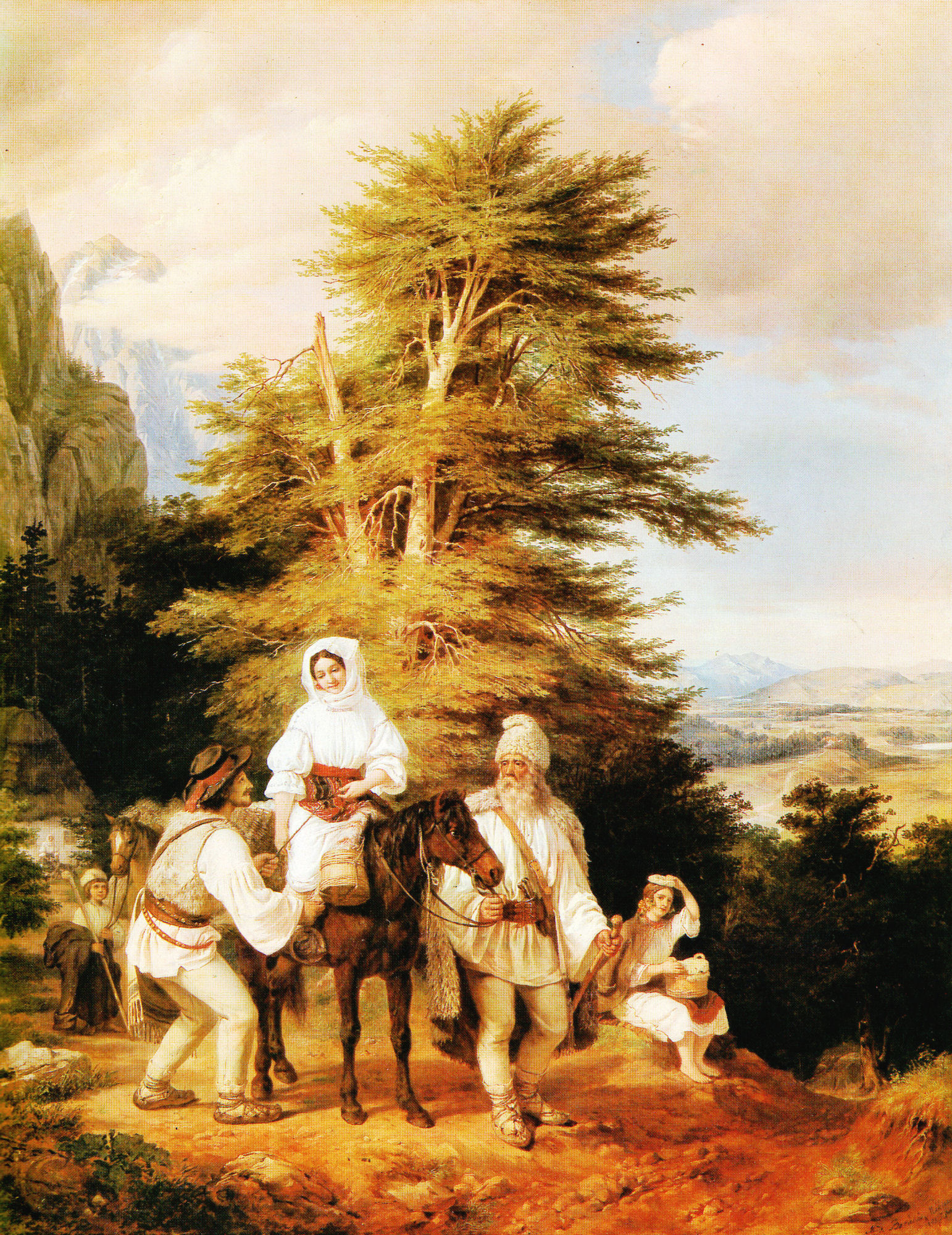 Romanian Family Going to the Fair Vásárra induló román család (Eredeti címek: Erdélyi oláhok vásárra mennek ; Vásárra ballagó bérci oláhok)